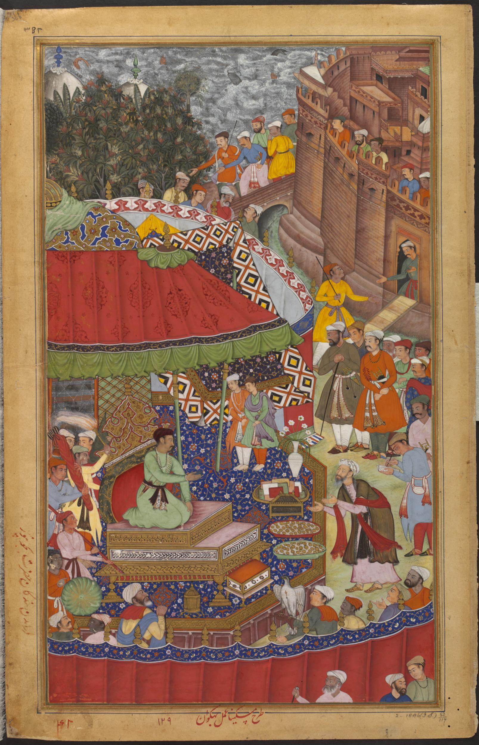 Asaf Khan I, a Mughal general, presenting spoils from the conquest of Garha to Akbar in 1565 at Jaunpur, as shown in the Akbarnama